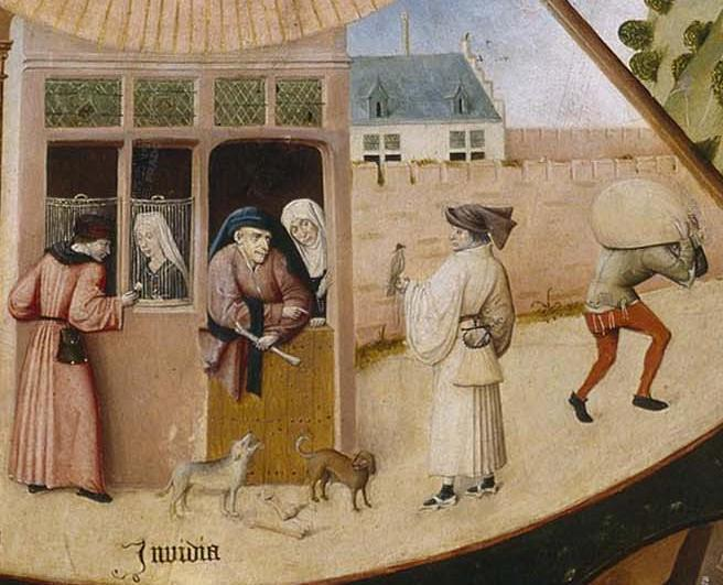 Table of the Mortal Sins [detail: Invidia (envy)].